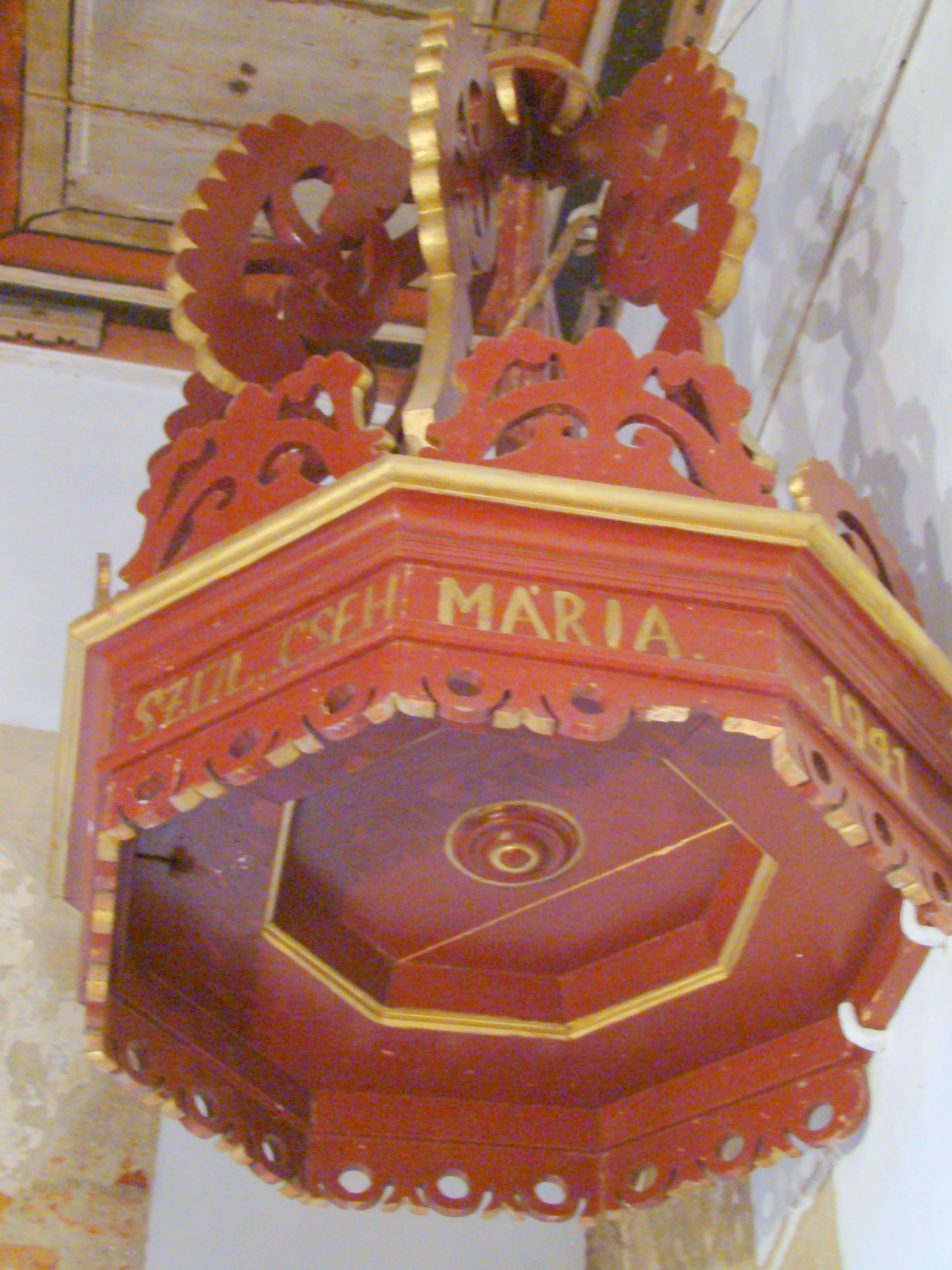 The canopy over the pulpit of the unitarian church in Maiad